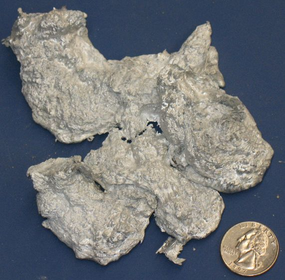 Aluminium oxide skimmed off the surface of molten aluminium.